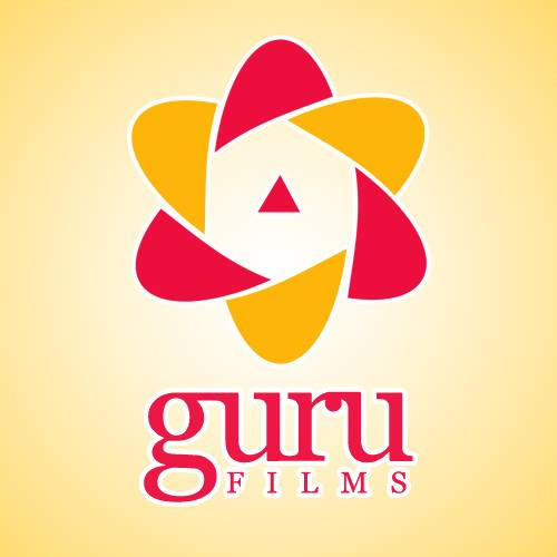 The Official Logo of Guru Films